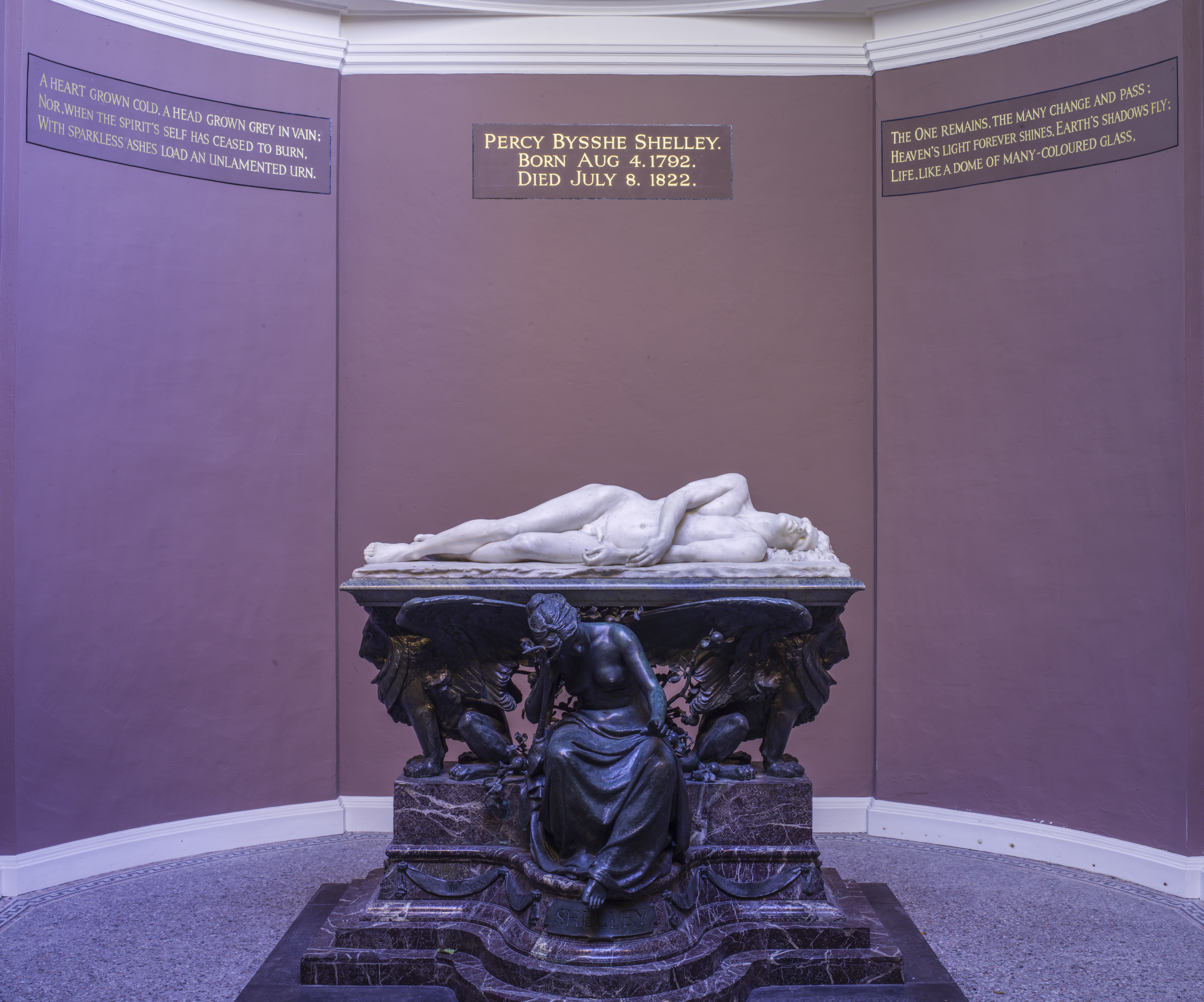 University College (Oxford University) founded in 1249. Shelley Memorial for Percy Bysshe Shelley